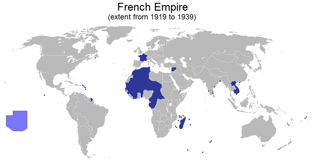 The extent of the French Empire between 1919 and 1939.